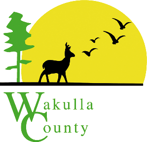 Seal of Wakulla County, Florida.